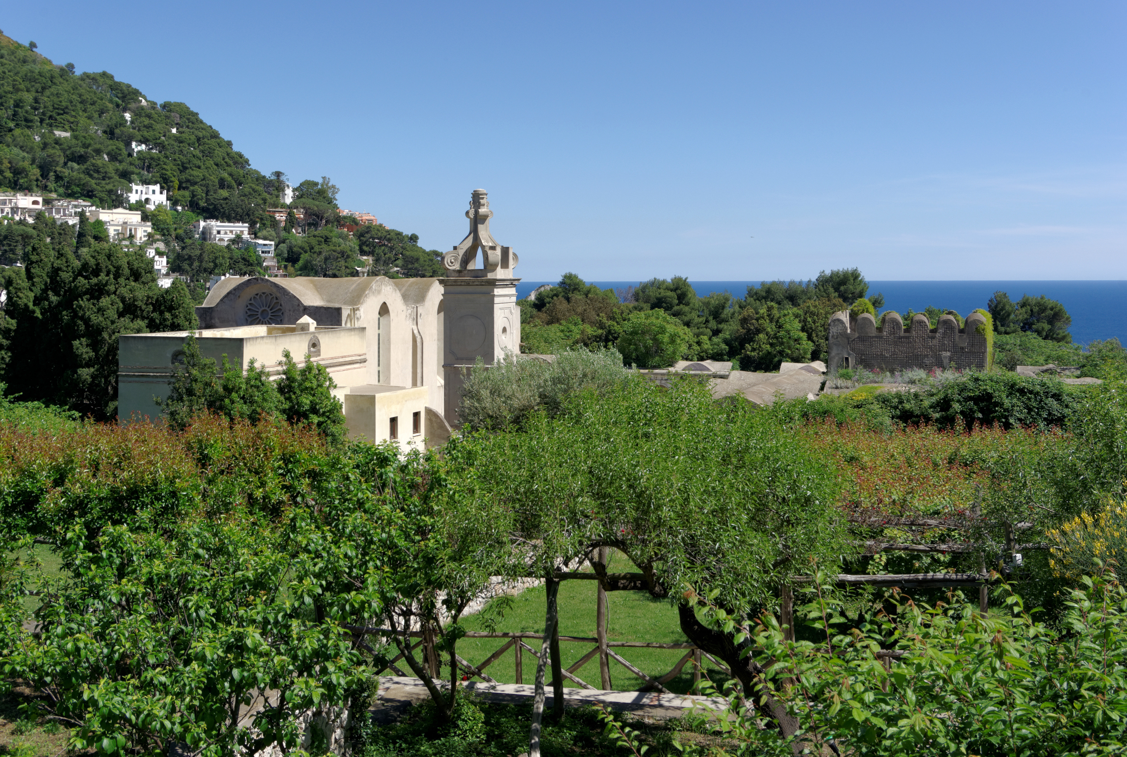 Capri, Certosa di San Giacomo